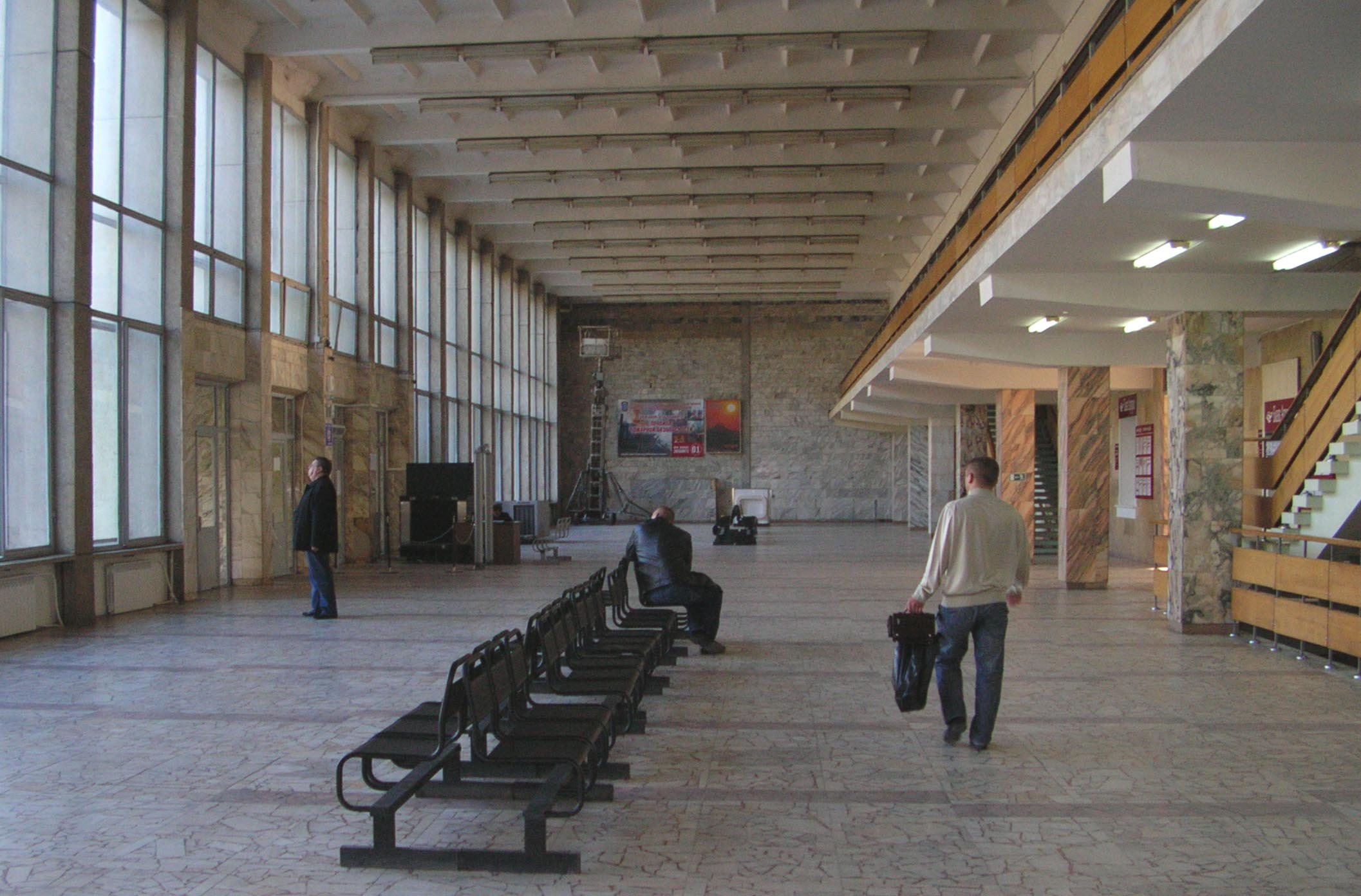 In the airport terminal building "Tsentralny" (Saratov, Russia).